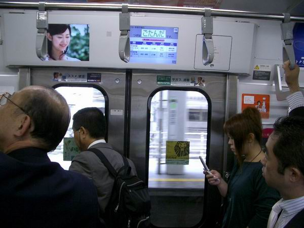 Inside of Japan metro system. A girl is using her mobile phone.